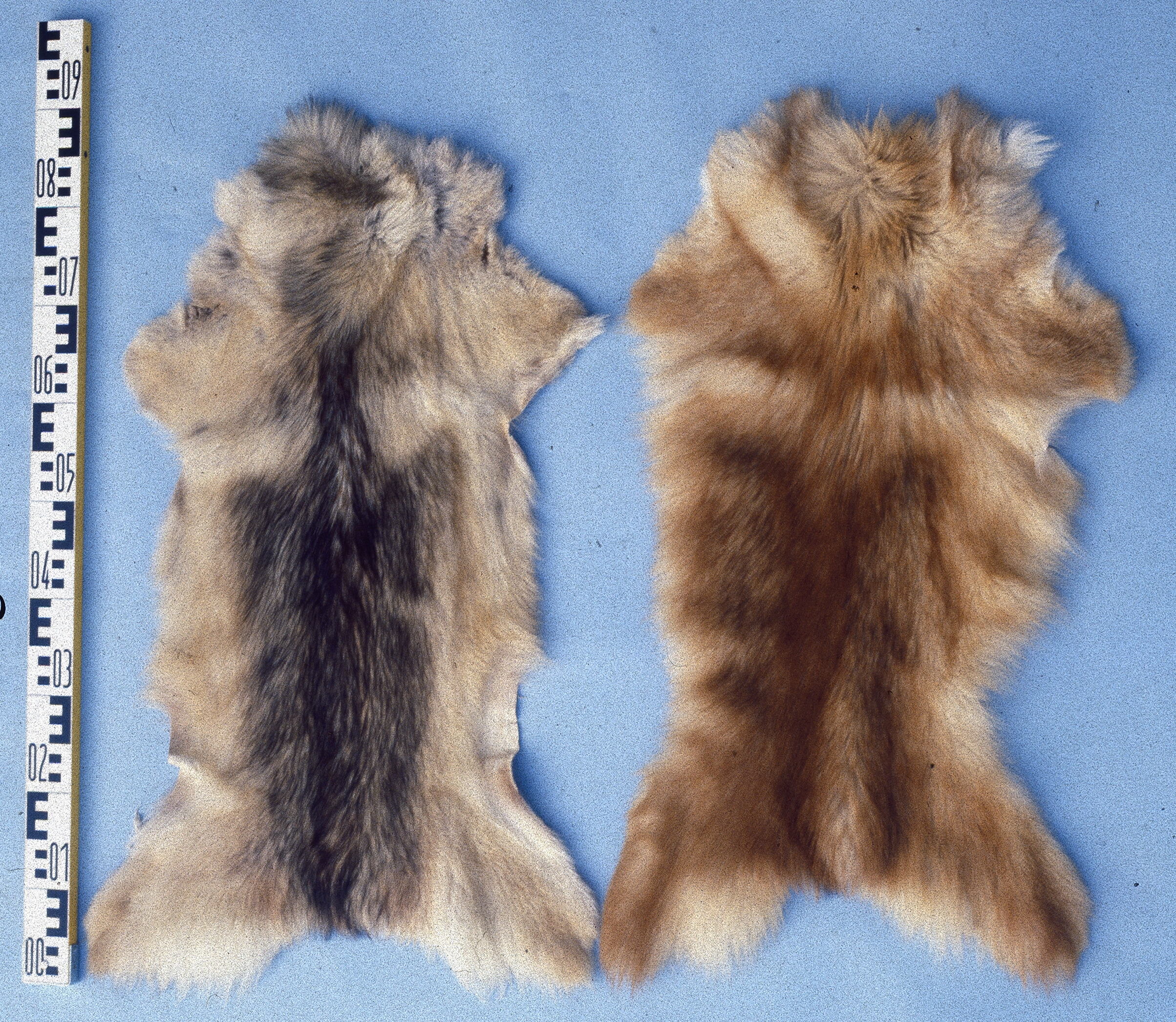 Feral dog fur skins of Korea, China (Canis lupus familiaris). Fur skin collection, Bundes-Pelzfachschule, Frankfurt/Main, Germany